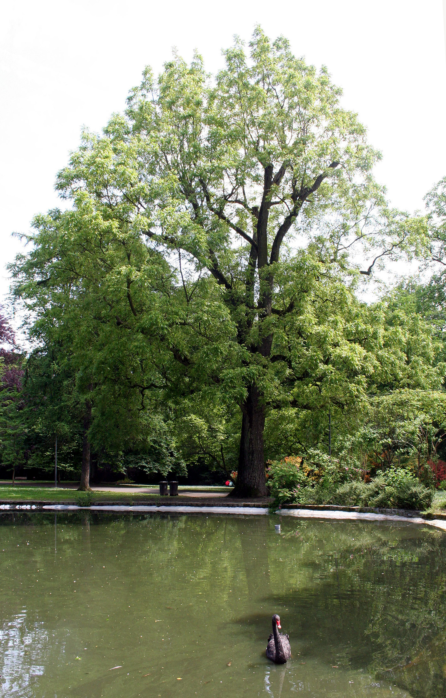 Vilmorin Walnut